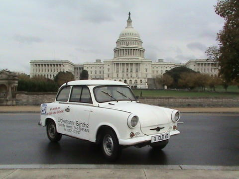 Trabant P50 or 60 during the First Trabant Rally.